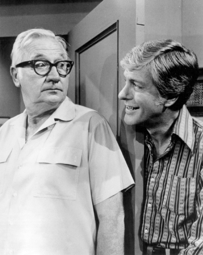 Photo of Edward Andrews and Dick Van Dyke from the television program The New Dick Van Dyke Show.